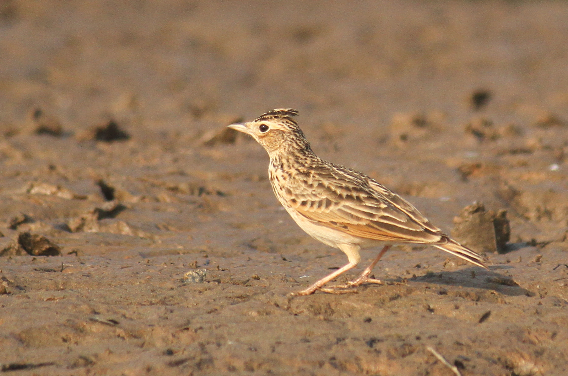 Oriental skylark (Alauda gulgula) in India